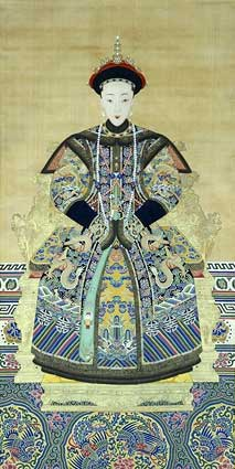 The Official Imperial Portrait of Qing Dynasty's XiaoDe Empress (1831-1850)